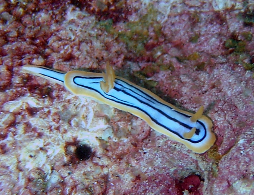 Chromodoris elizabethina Image ID: reef1100, NOAA's Coral Kingdom Collection Location: Guam, Mariana Islands